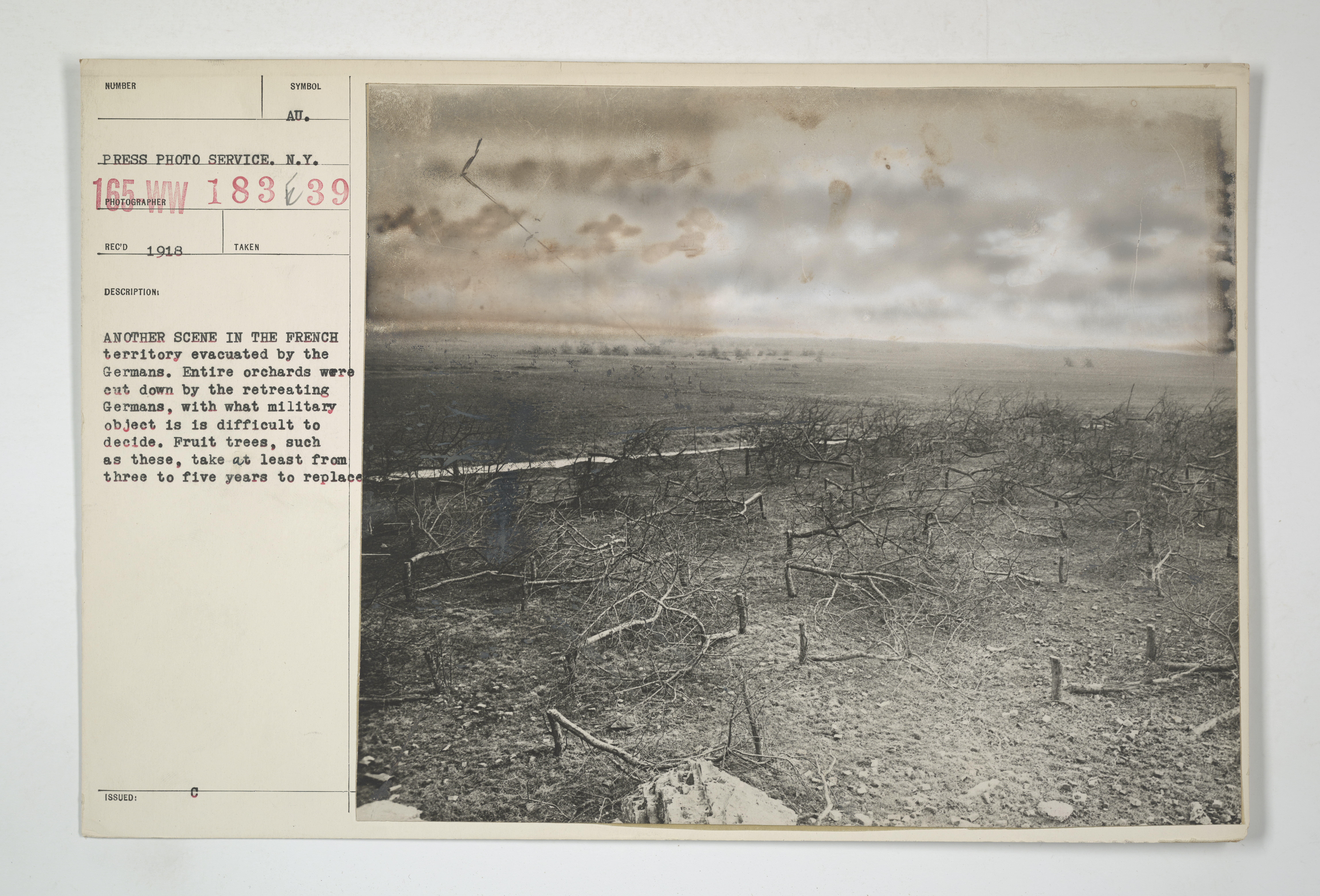 Scope and content: Photographer: Press Illustrating Service